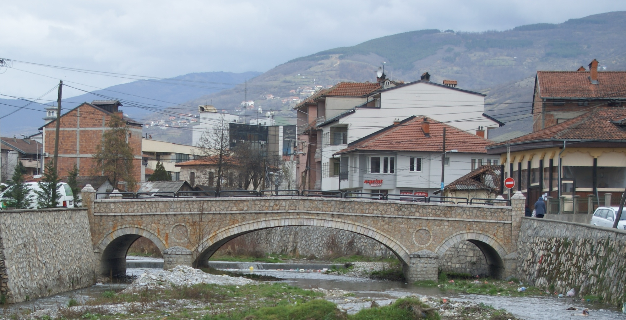 Ura tabakhanes